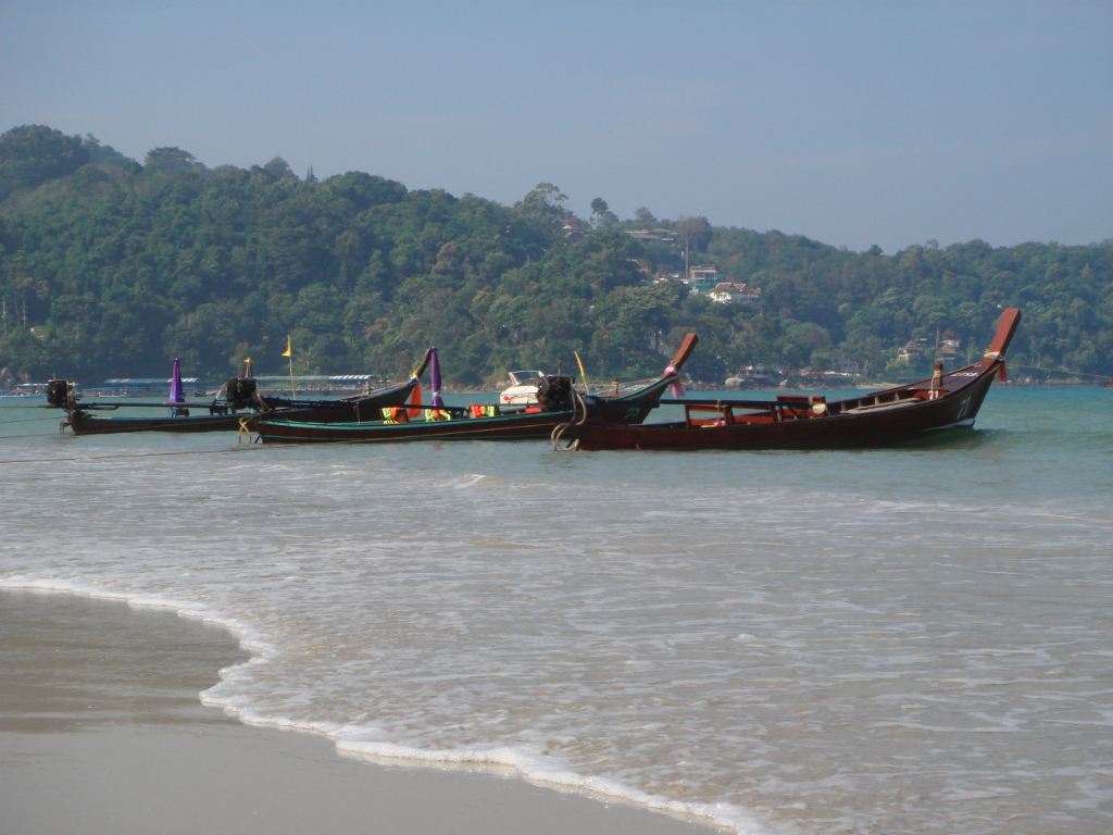 Fishing boats at Phuket, Thailand